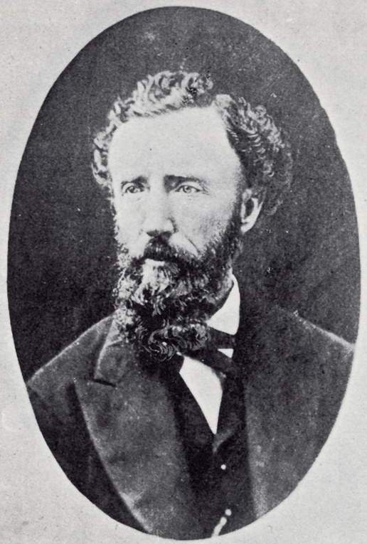 Undated portrait of George Flavel (ca. 1870)